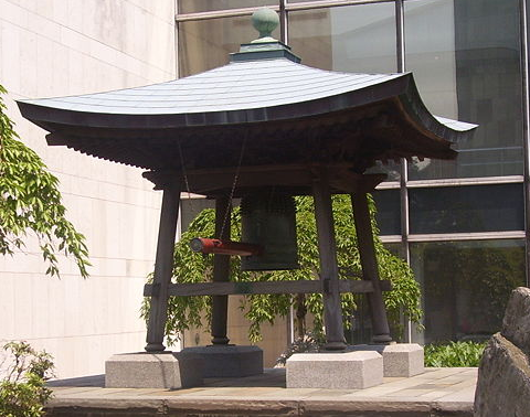 Cropped version of File:Japanese Peace Bell of United Nations.JPG